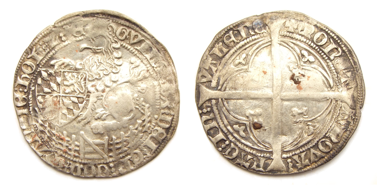 Holland, double groat or 'Tuin' struck in Valenciennes under William VI of Holland (1404-1417). Obverse: Lion in garden, seated to left, holding shield + .HANOIE.HOL.Z.ZE. Reverse: Long cross pattee in quatrefoil + .-VALENC.